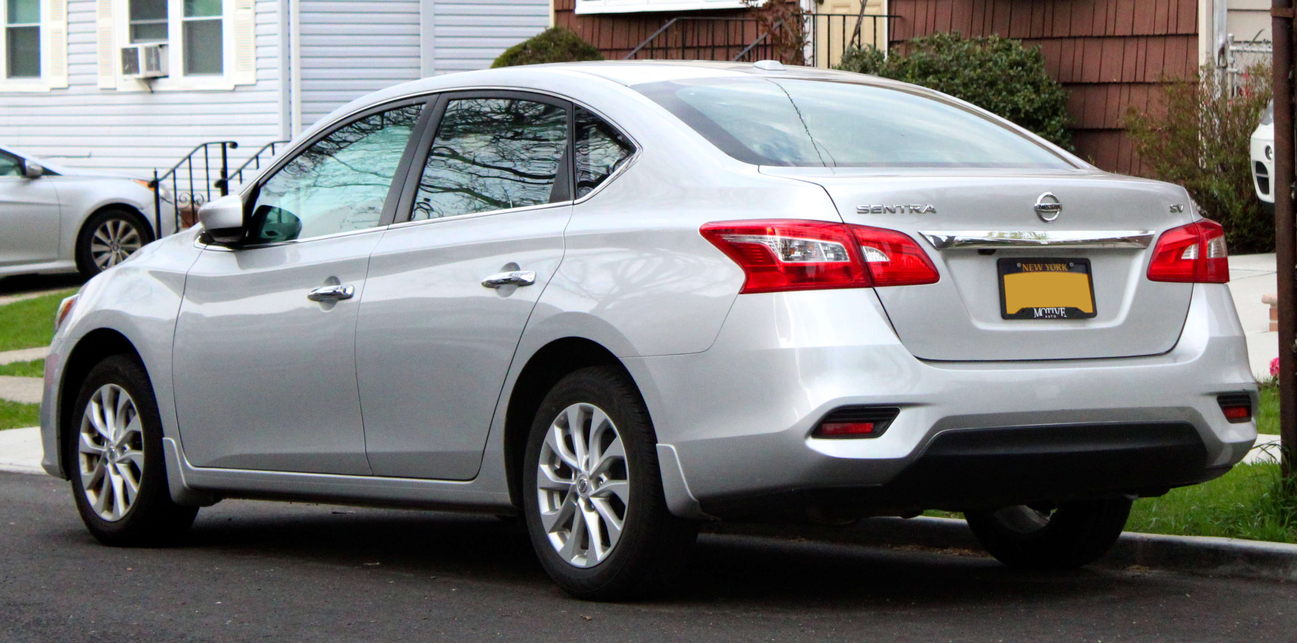 A 2017 Nissan Sentra photographed in Queens, New York, USA